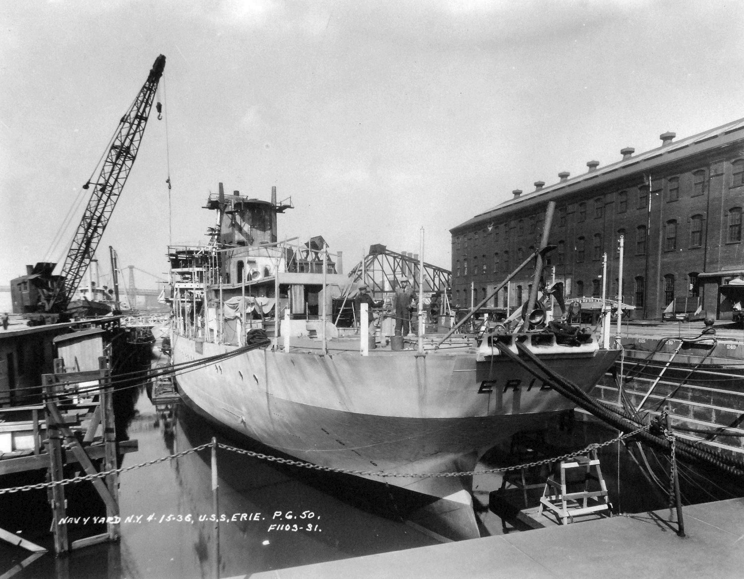 USS Erie (PG-50), New York (Brooklyn) Navy Yard, New York, 15 April 1936.